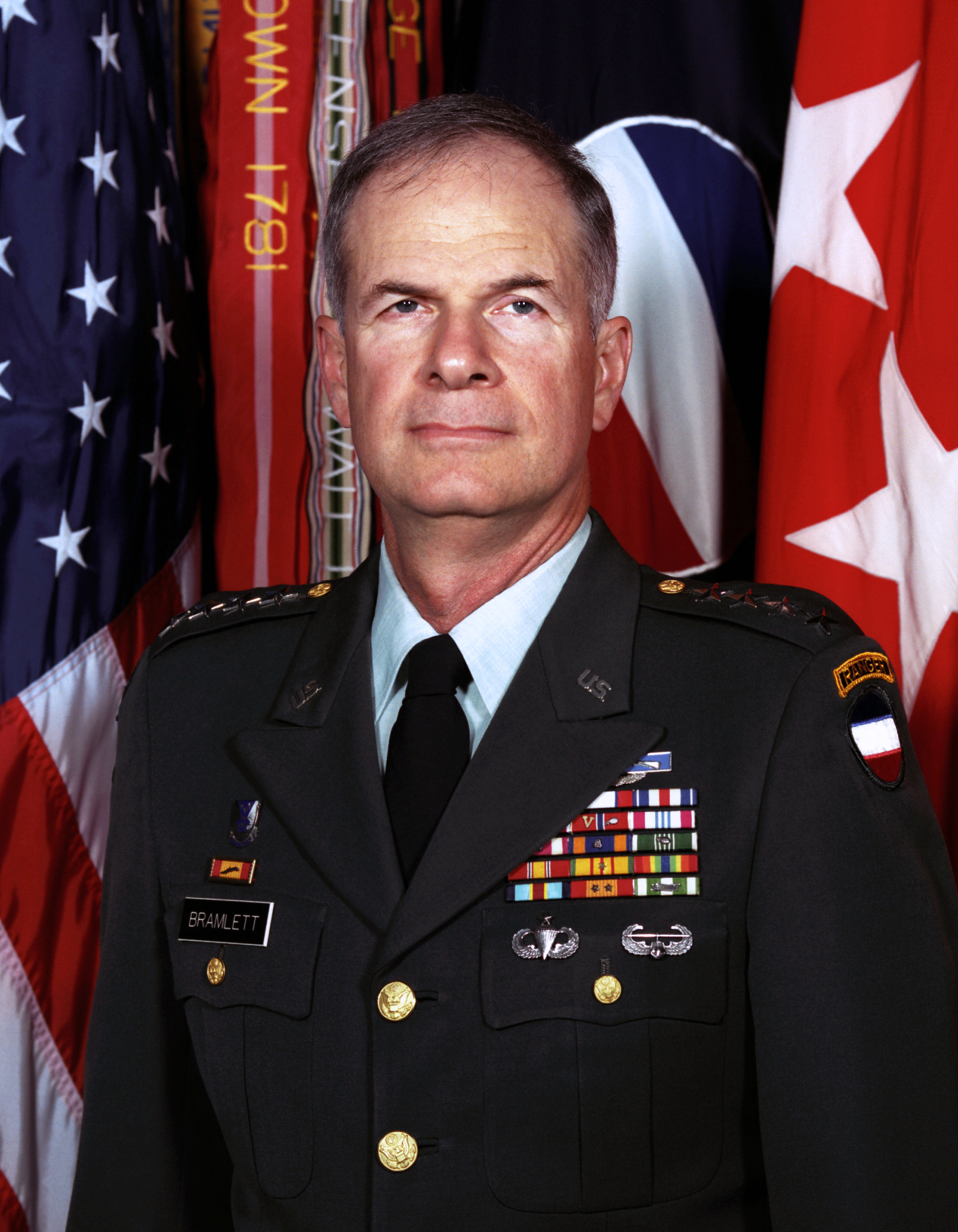 GEN David Bramlett, Commander FORSCOM